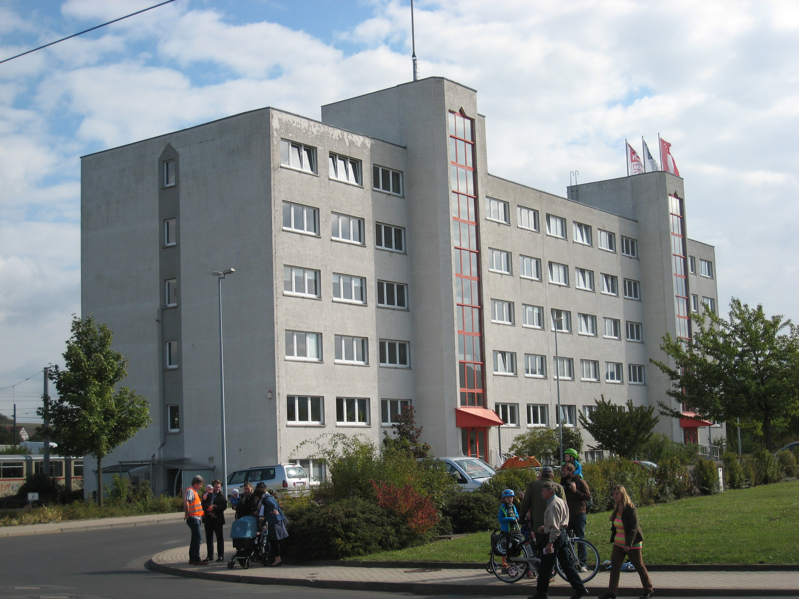 EVAG Betriebshof Urbicher Kreuz - Am Urbicher Kreuz, Erfurt, Thüringen, Deutschland